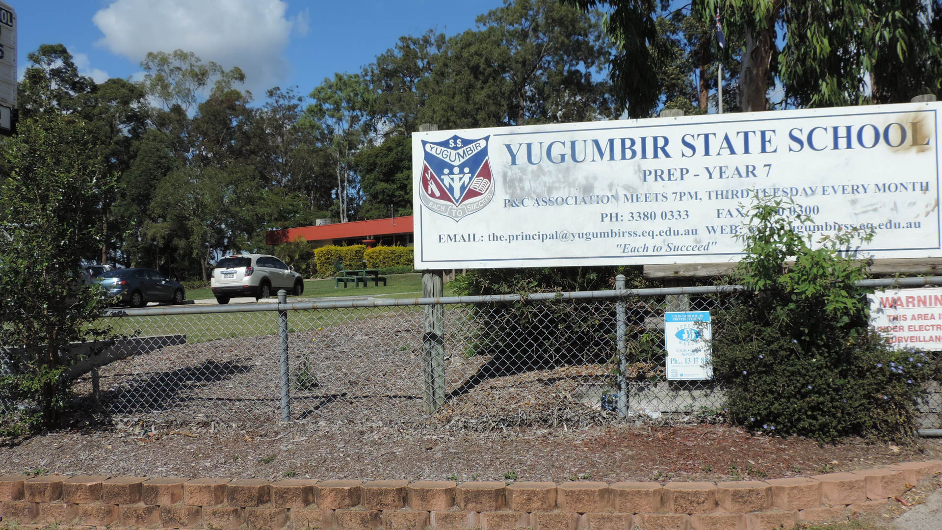 Yugumbir State School, 2014